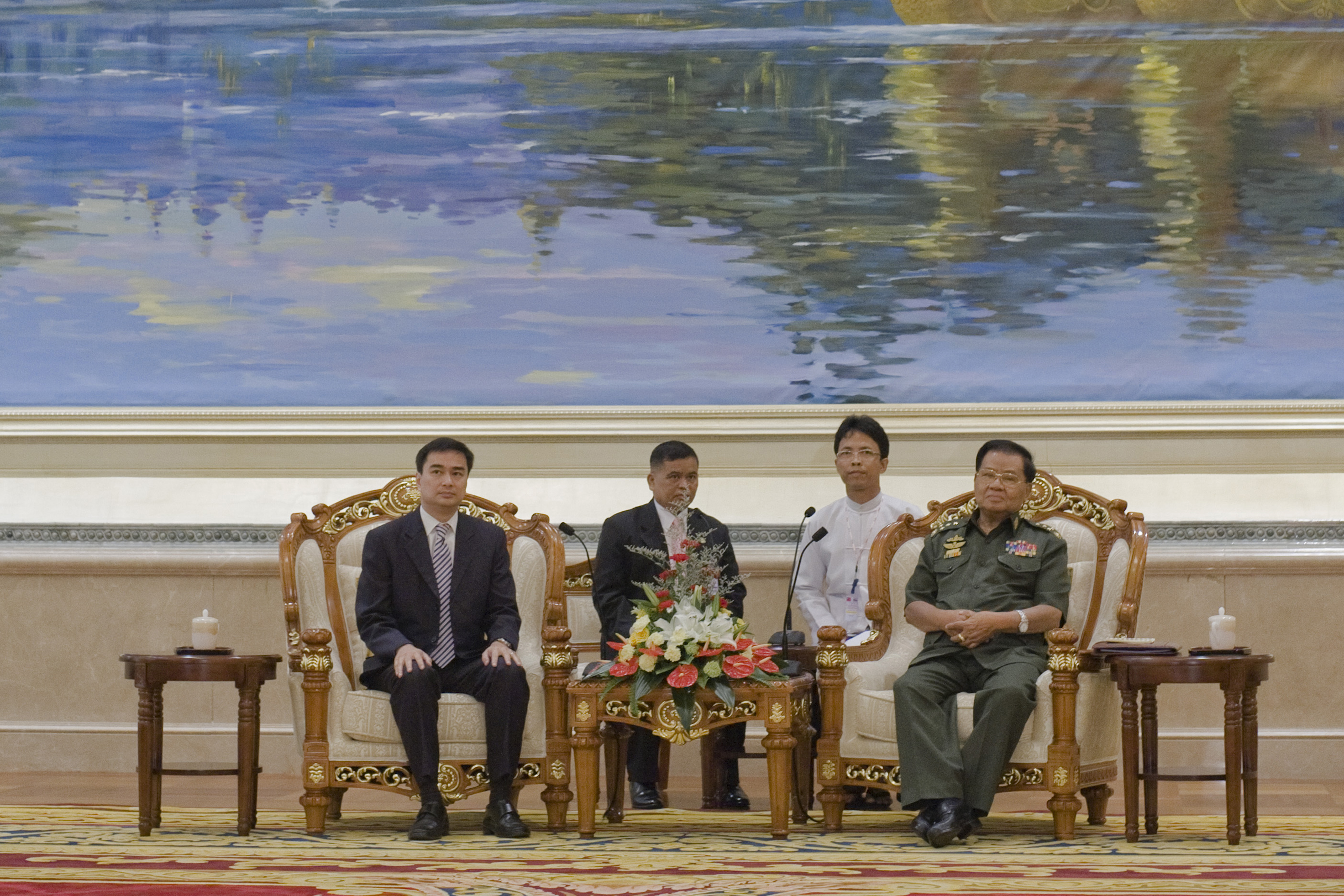 Closeup of Than Shwe and Abhisit in Thai delegation visit to Myanmar, October 2010